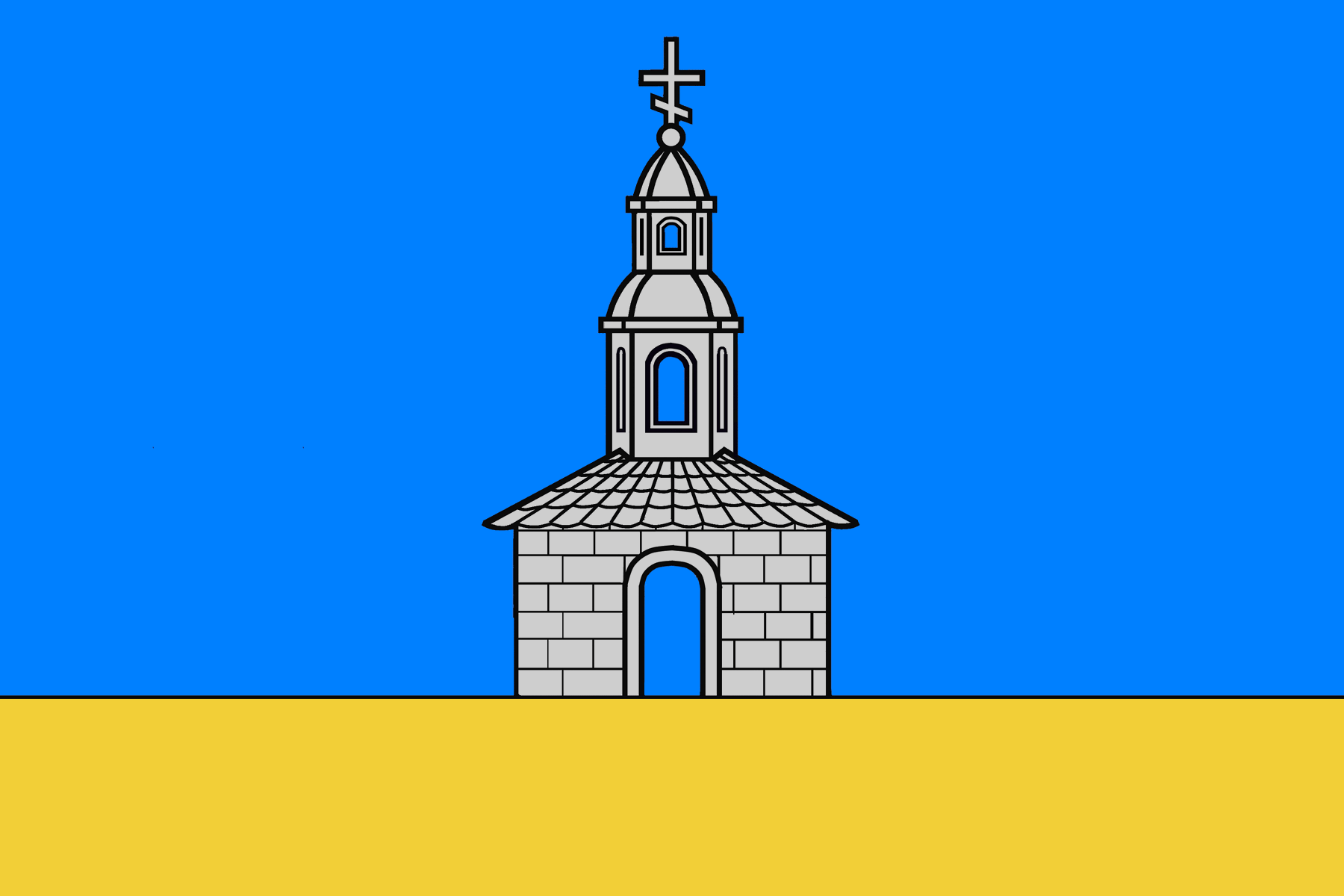 Flag of Yurevets urban settlement, Ivanovo Oblast, Russia